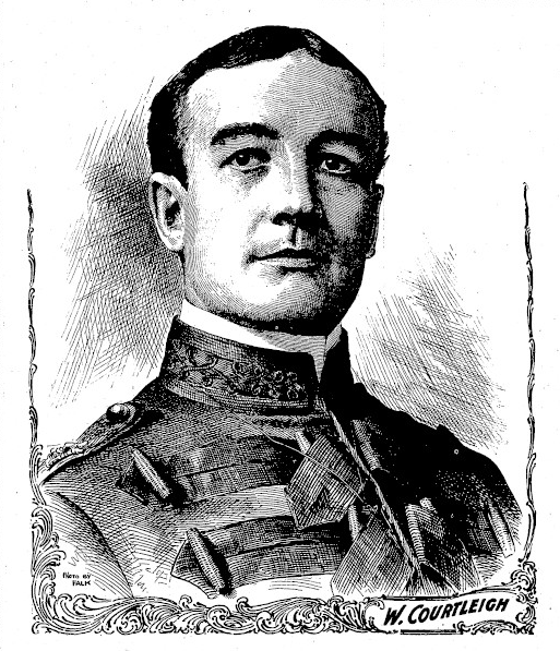 William Courtleigh in the New York Clipper 1899